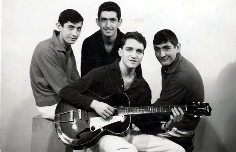 Soroak, a Basque singer group of the late 1950's and the early 1960's